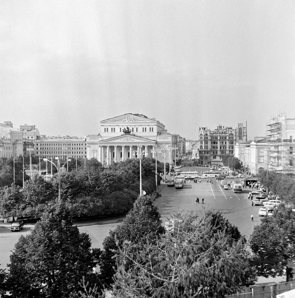 “Moscow's Sverdlov Square”. Moscow's Sverdlov Square.